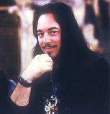 Taken August 26, 1989